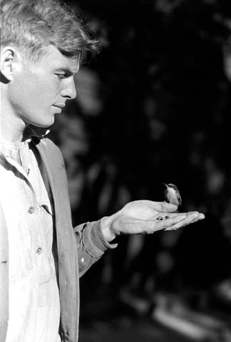 Ranger naturalist edwin mckee (In profile) With pygmy nuthatch bird in hand. Circa 1929. Nps, ensor